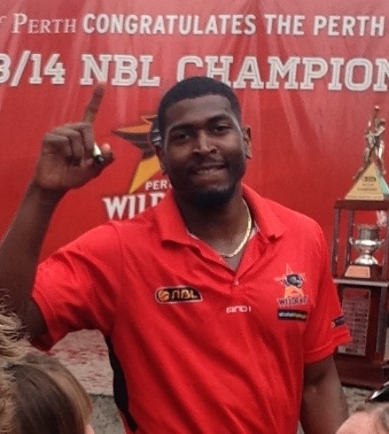 Jermaine Beal at the Perth Wildcats' 2013/14 championship ceremony at Forest Place, Perth